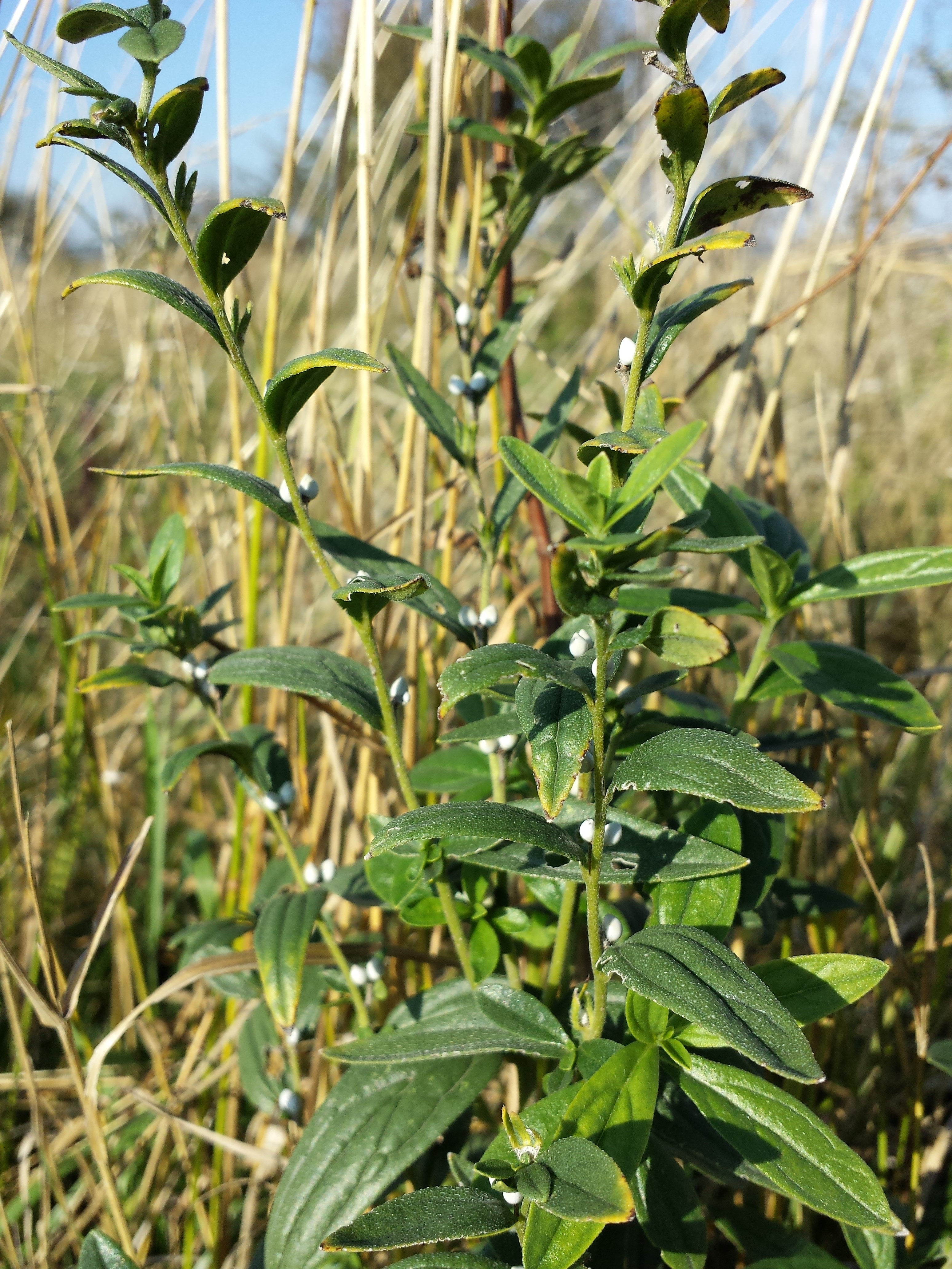 Plant with fruits Taxon: Lithospermum officinale (sensu Fischer et al. EfÖLS 2008, det M. A. Fischer 2013-09-28) Location: Alte Schanzen, object X, Floridsdorf, Vienna - ca. 220 m a.s.l. Habitat: dry grassland